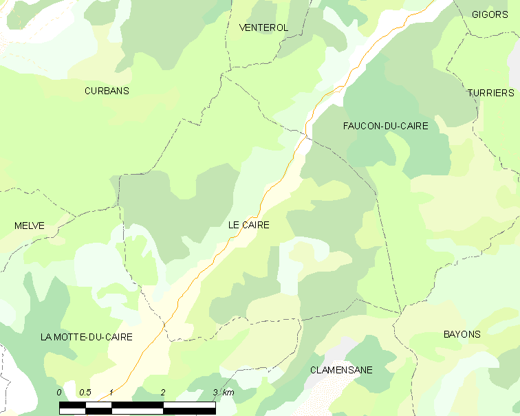 Map commune FR insee code 04037.png Légende